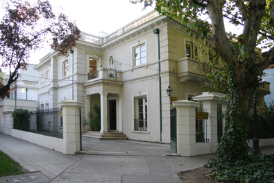 Bilding of the Institute of International Studies of the University if Chile